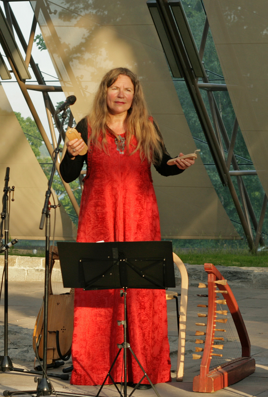 Norwegian traditional folk and Medieval music performer Tone Hulbækmo.